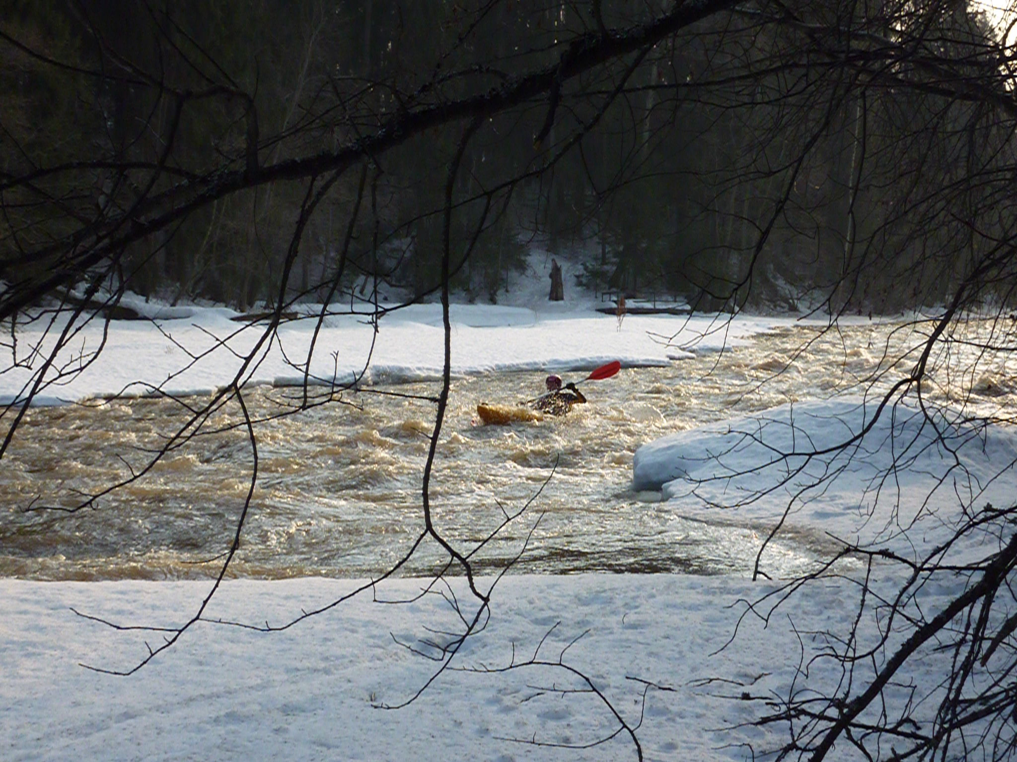 Canoeing in Pitkäkoski in Vantaanjoki, on the border of Helsinki and Vantaa